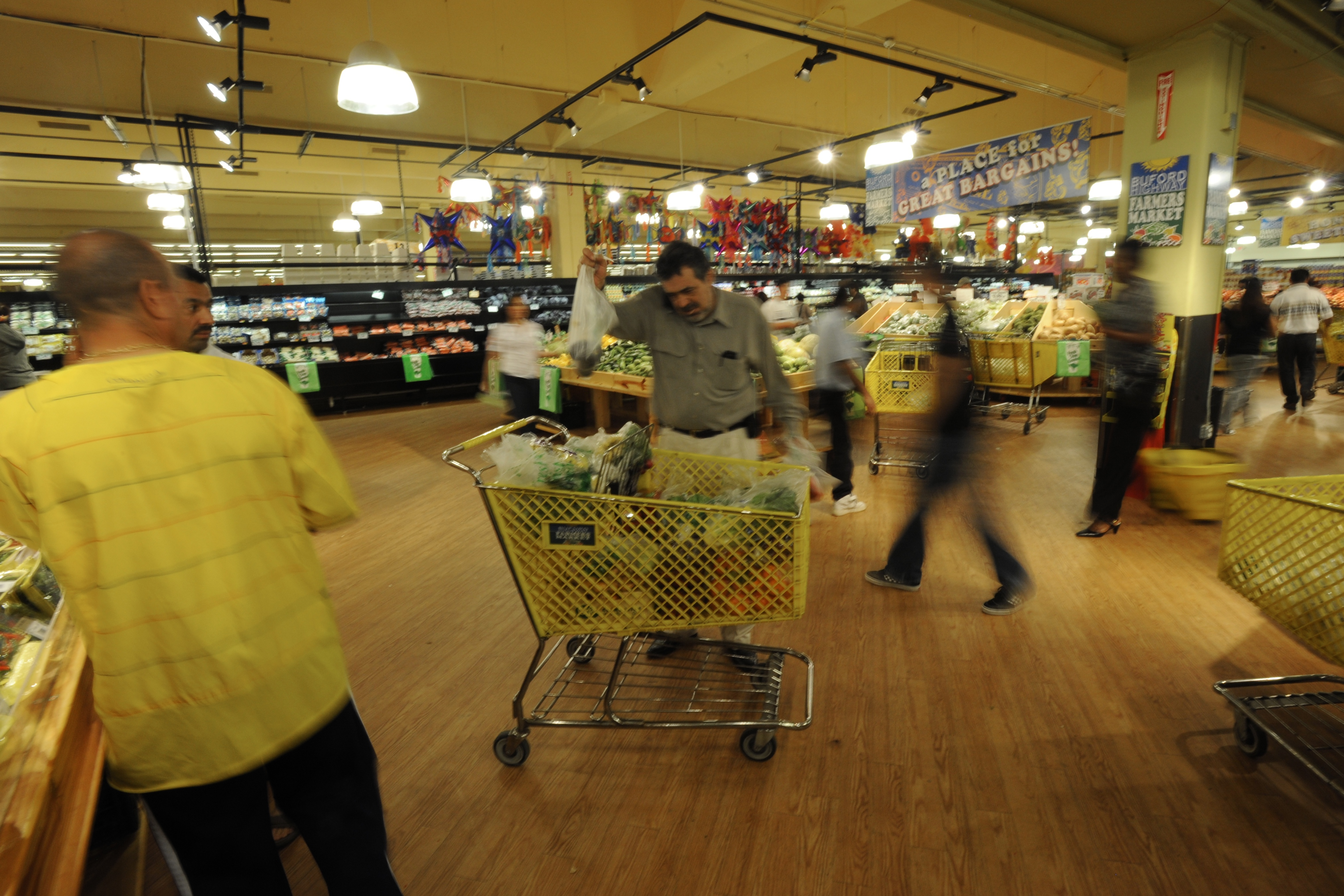 Buford Highway Farmer's Market in Doraville, Georgia. Atlanta's Buford Highway - Atlanta, GA Photo by Kate Medley Spring 2010